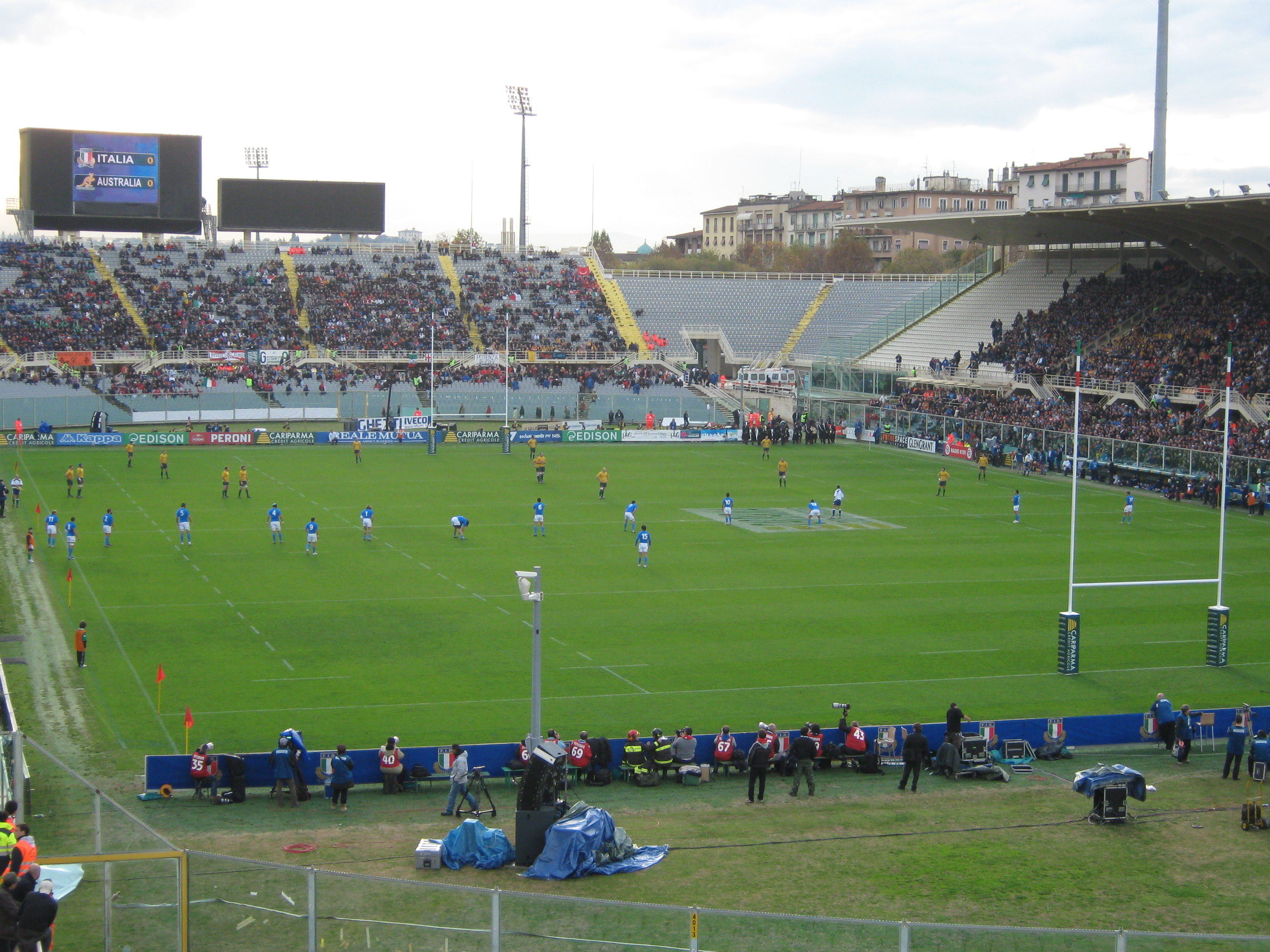 Artemio Franchi stadium during Italy-Australia, rugby test match played on 20/10/2010